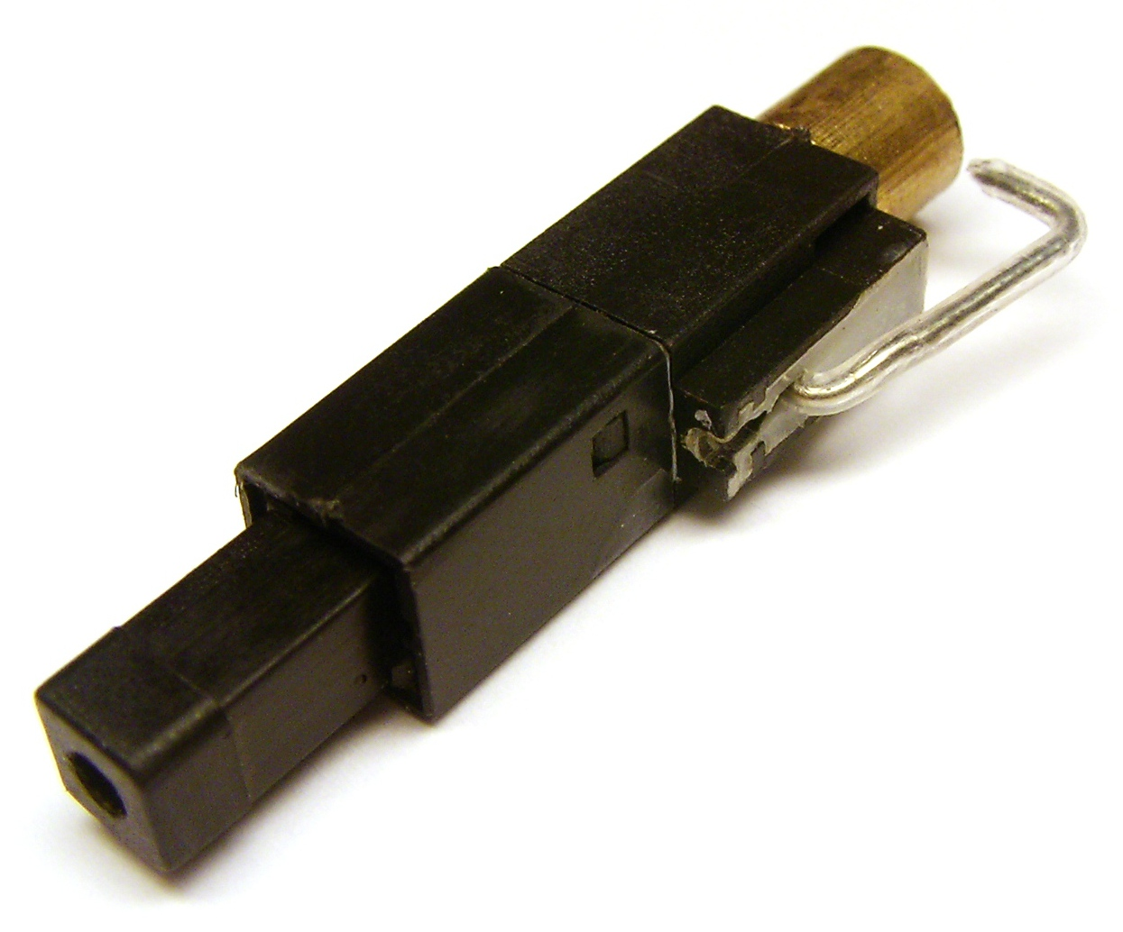 A piezo igniter element from a typical lighter. When the button visible in the bottom is pressed, a spark strikes between the metal cap and the wire, igniting the gas from the lighter.